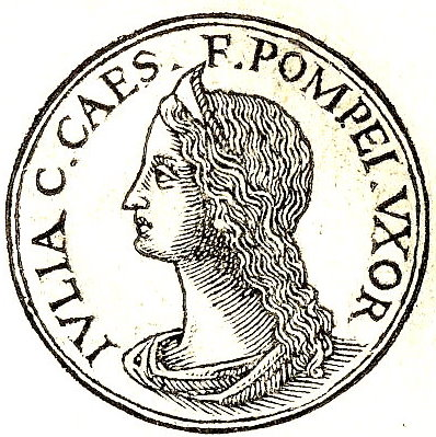 Julia Caesaris was the daughter of Gaius Julius Caesar the dictator, by his first wife, Cornelia Cinna, and his only child in marriage. Julia became the fourth wife of Pompey the Great and was renowned for her beauty and virtue.